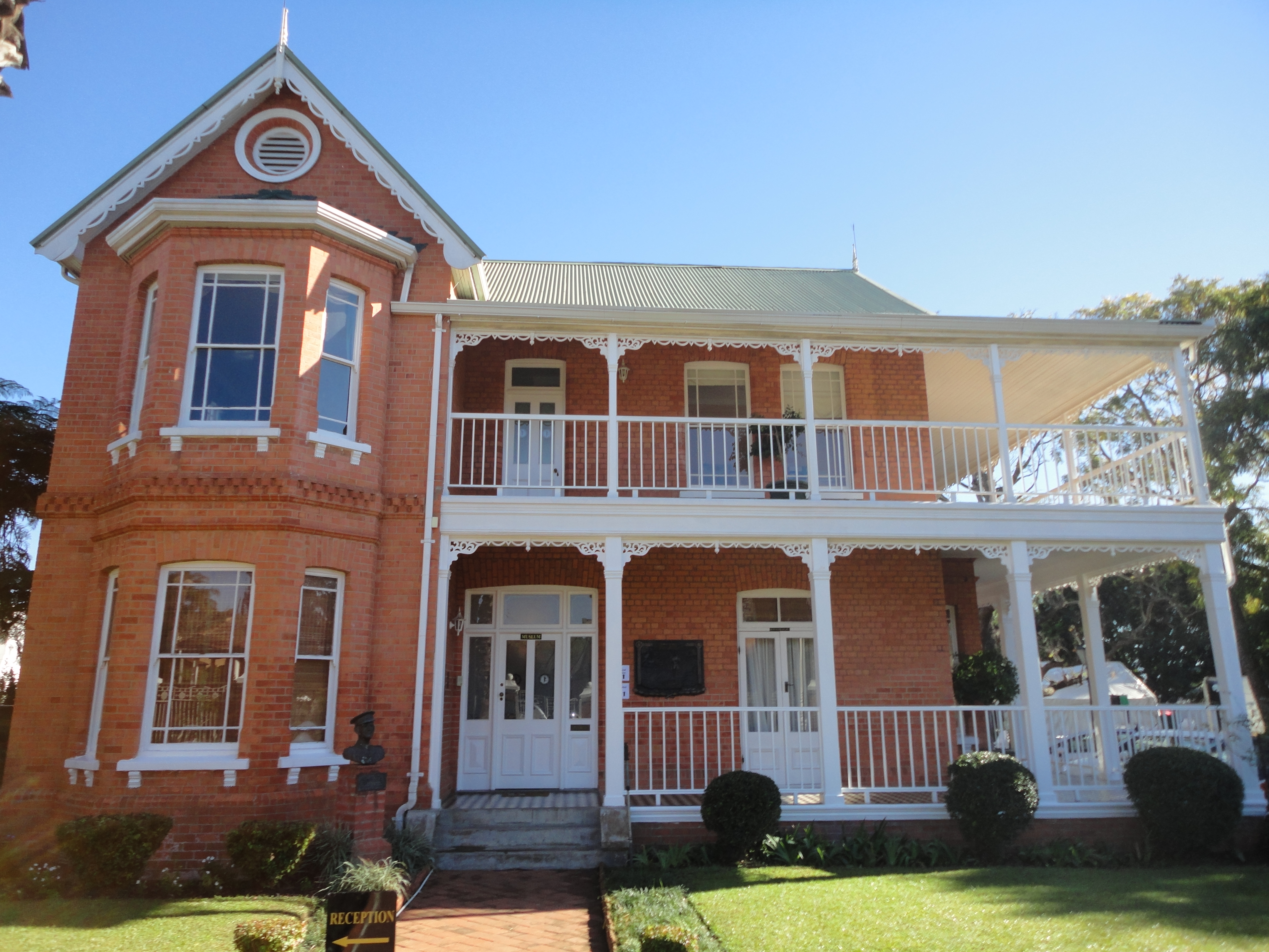 Comrades House in Pietermaritzburg, the administrative centre of the Comrades marathon. The architect who redesigned the building was Wynand Claassen, former Springbok rugby captain, who also completed this ultra-marathon 10 times.